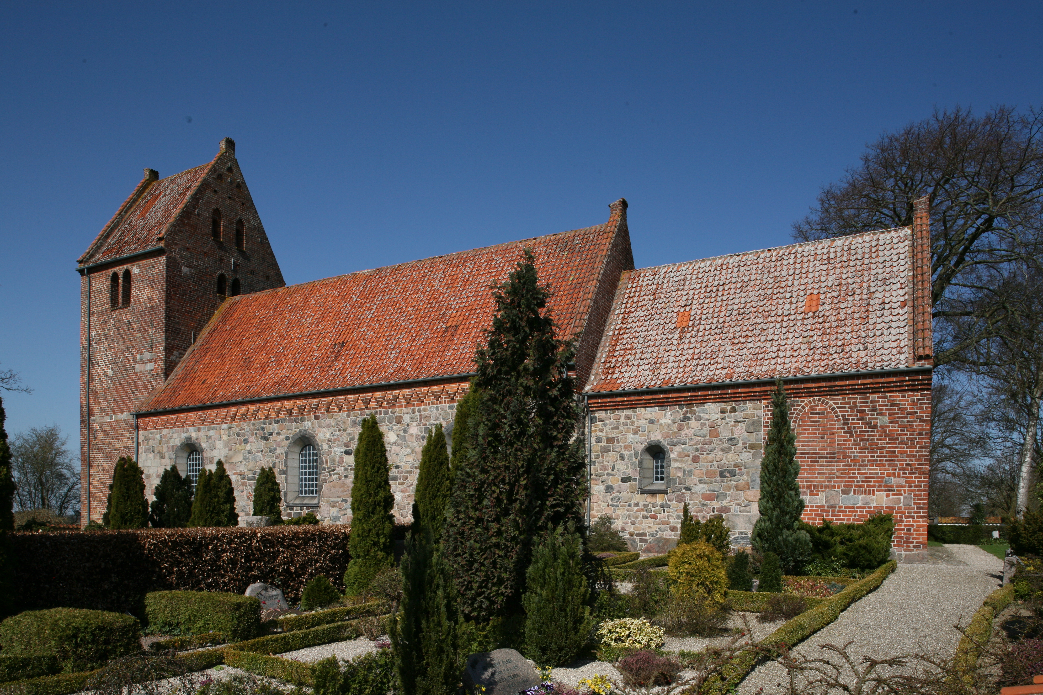 Førslev church in Denmark